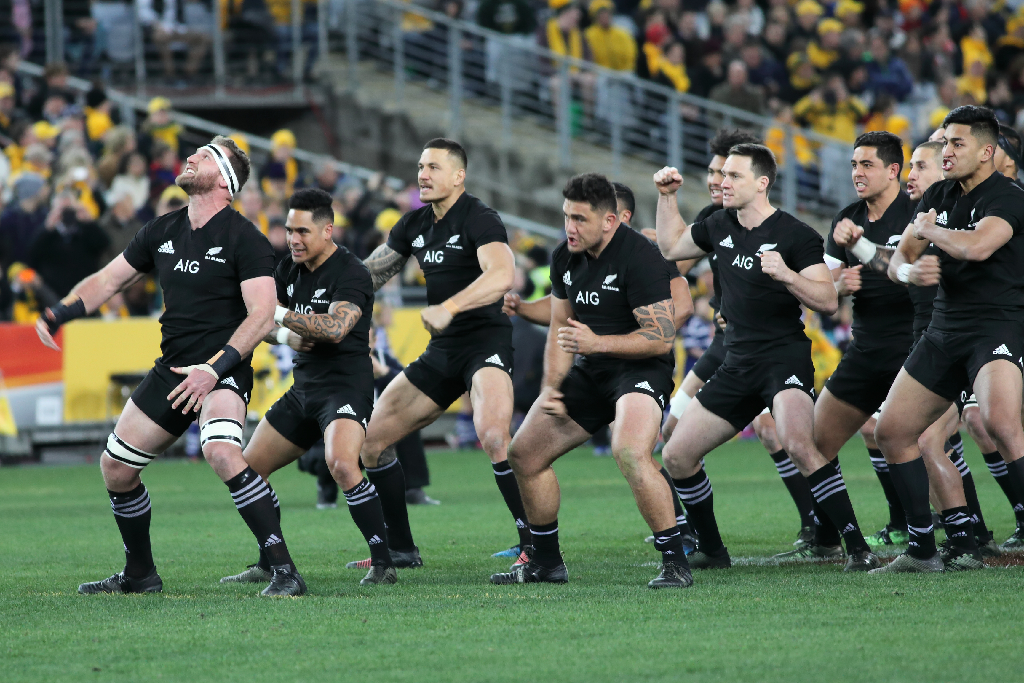 2017.08.19.20.07.32-Haka 2017 Rugby Championship, Bledisloe 1, Australia vs New Zealand, 19th August, ANZ Stadium, Sydney